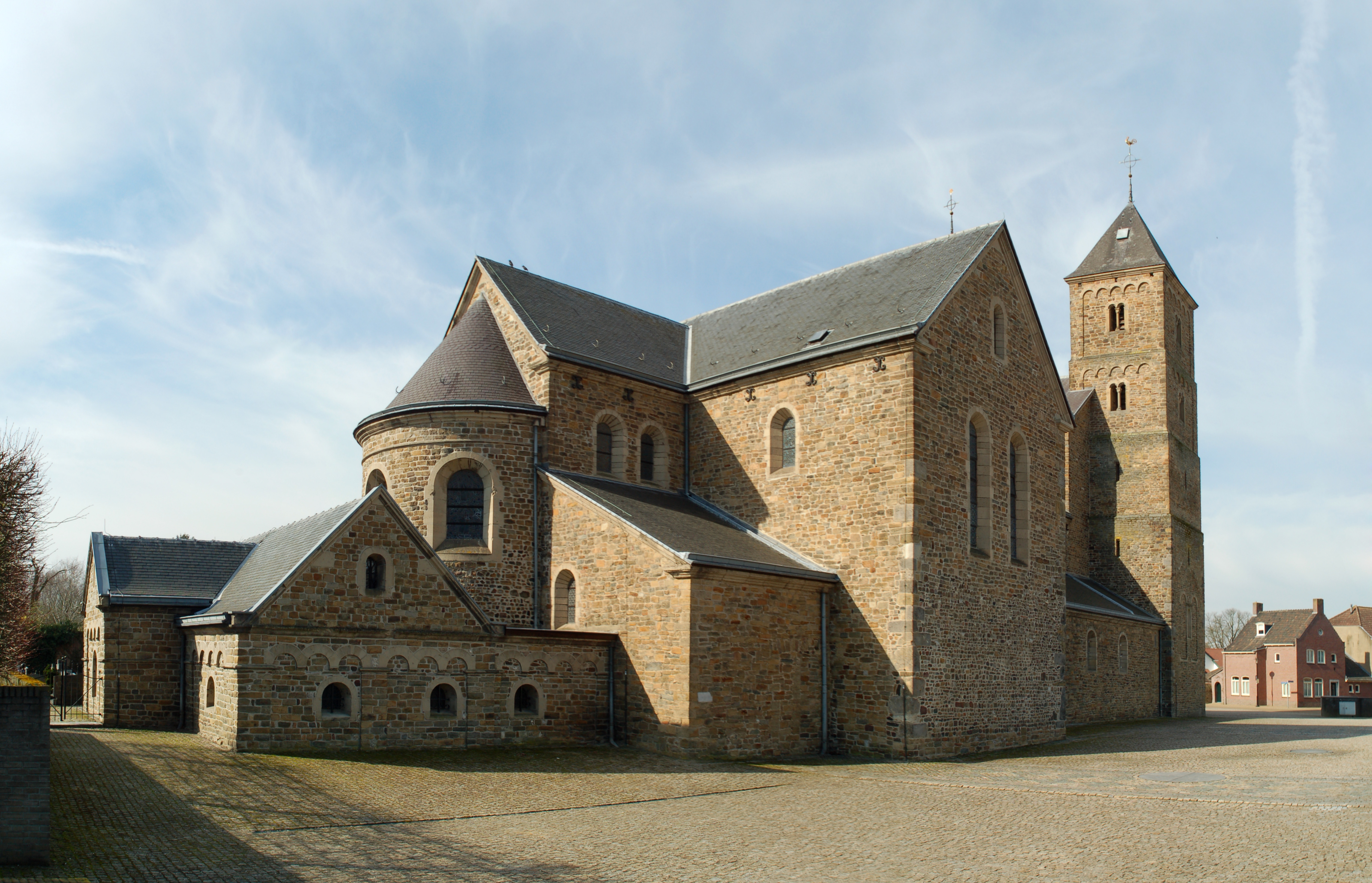 St. Amelbergachurch in Susteren, Netherlands, Pano